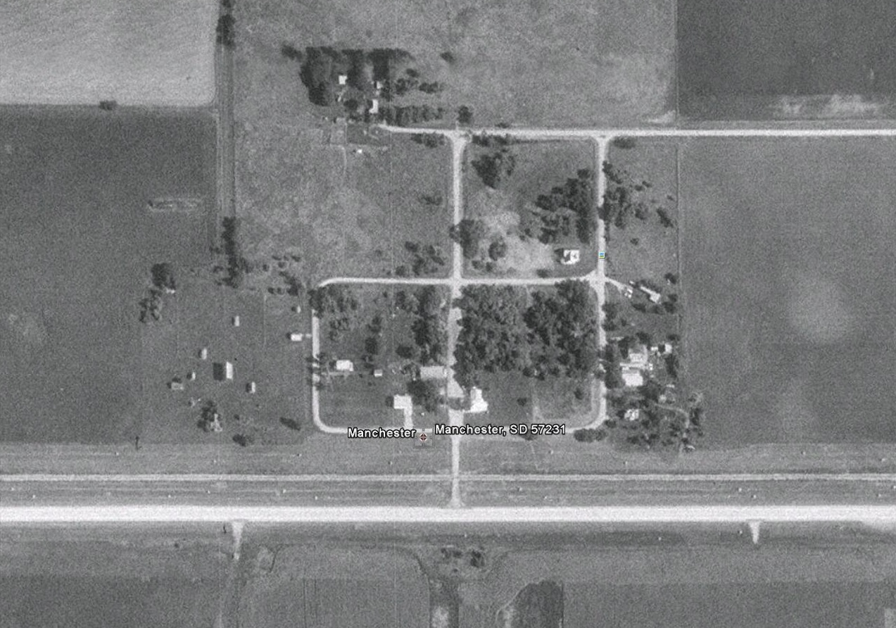 Aerial photo of Manchester, South Dakota c. 1991